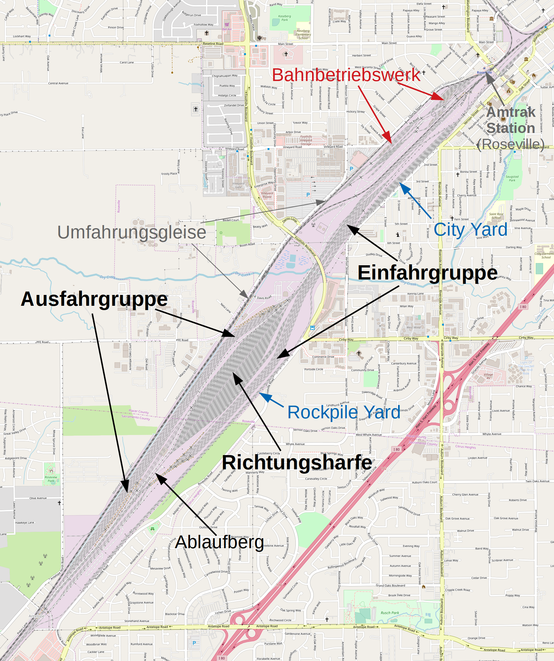 J.R. Davis Yard in Roseville, California. Various areas within the Yard accordingly to: Ron Hand, Pingkuan Di, Anthony Servin, Larry Hunsaker, Carolyn Suer: Roseville Rail Yard Study. California Air Resources Board, State of California, 2004, page 24.